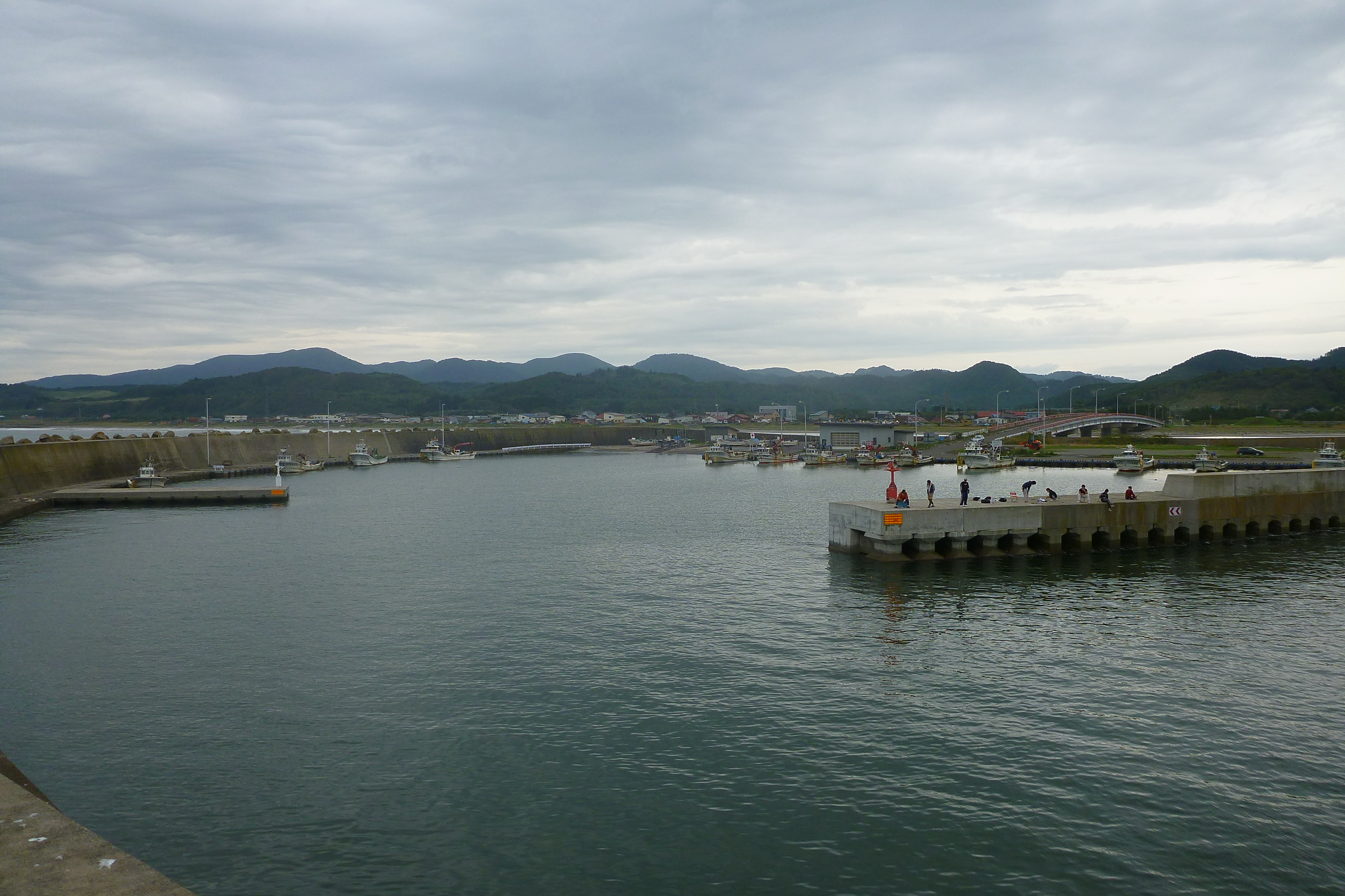 Kunnui Fishing Port